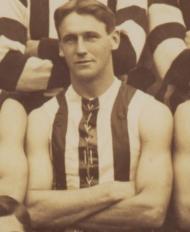 Photograph of Jack Green in 1914